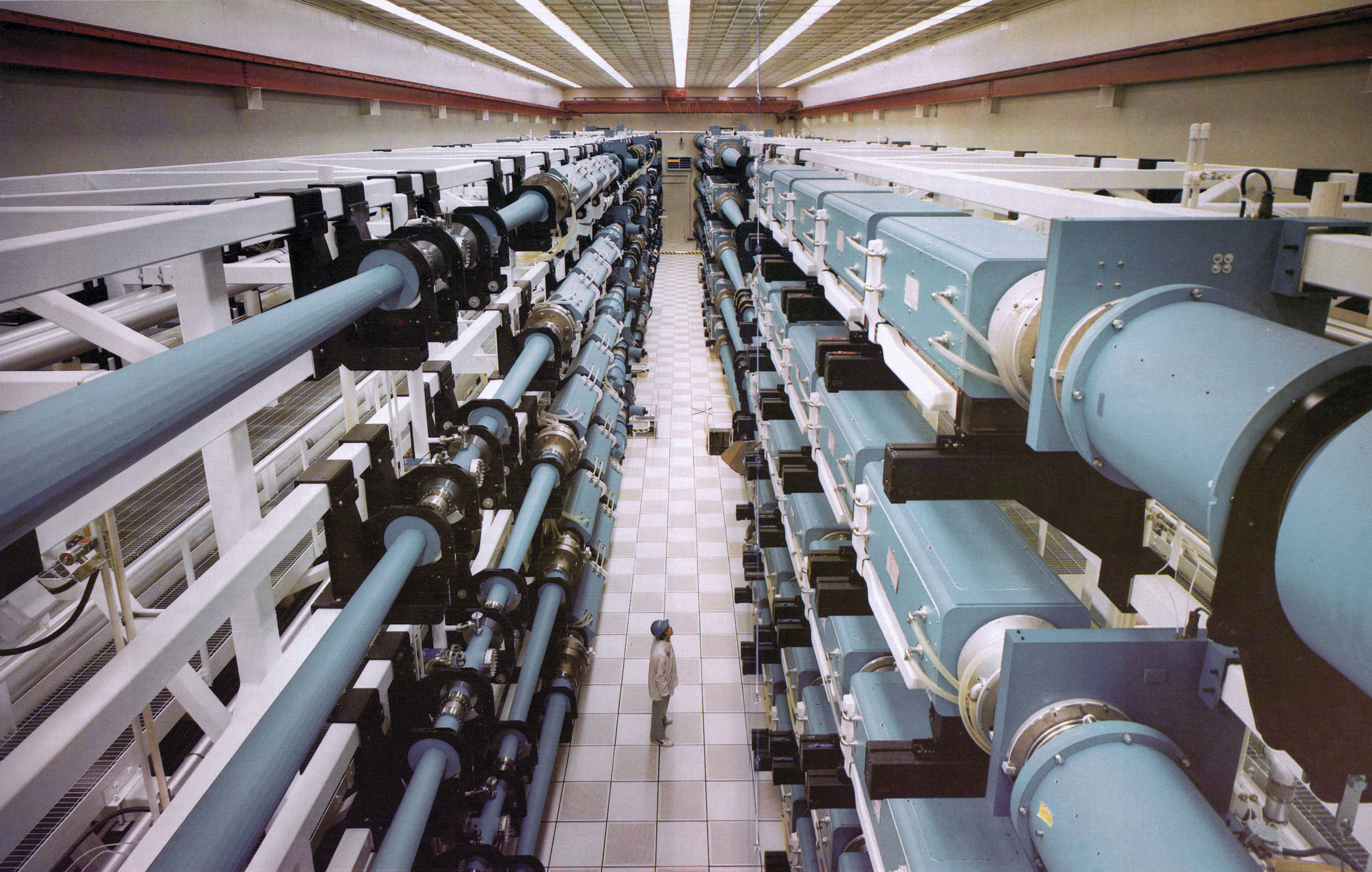 The NOVA laser at Lawrence Livermore National Laboratory. Taken shortly after the laser's completion in 1984.